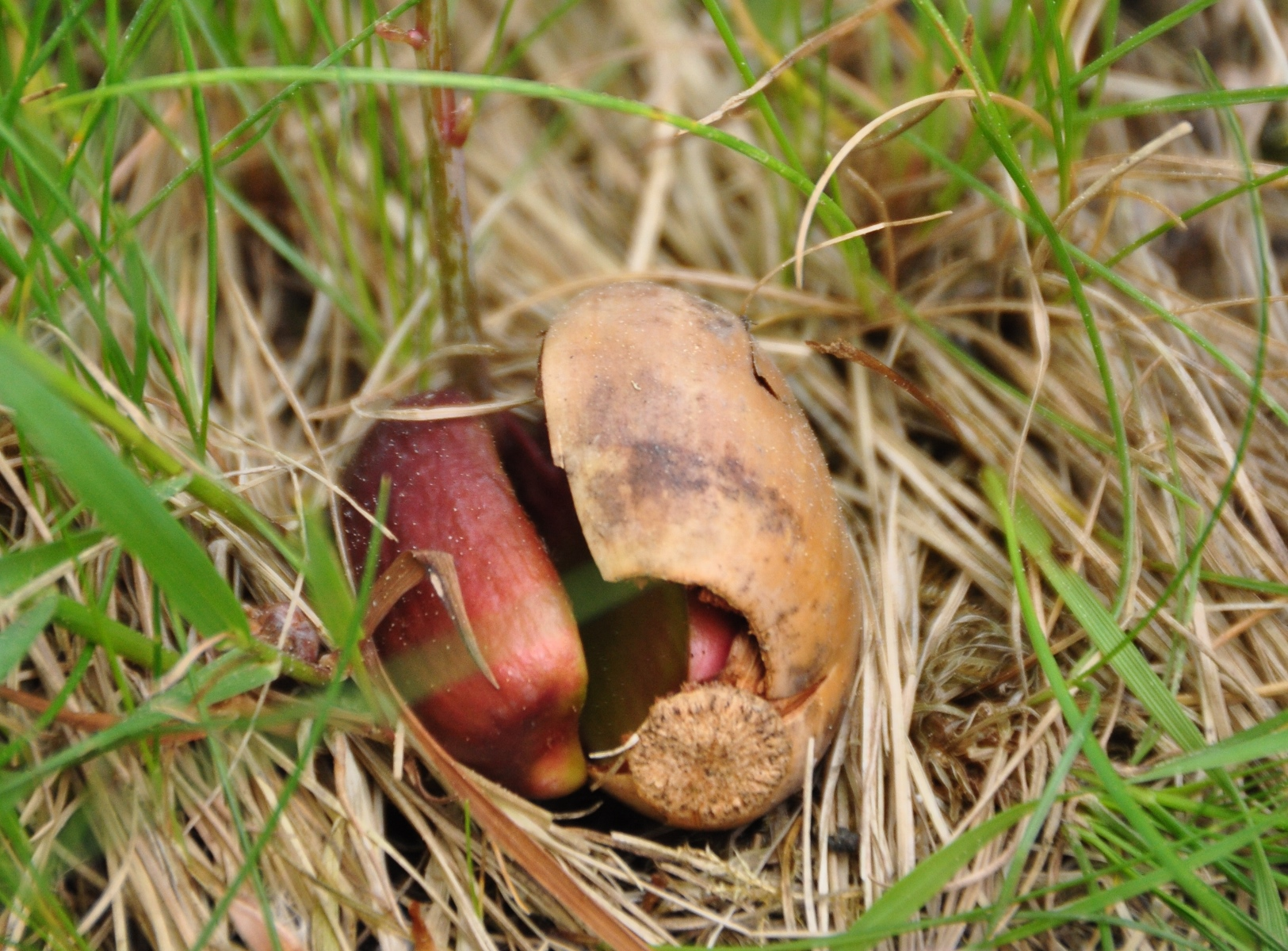 Sprout of Quercus robur proliferating from the acorn. Near Rozhirche village, Stryy Raion, Lviv Oblast